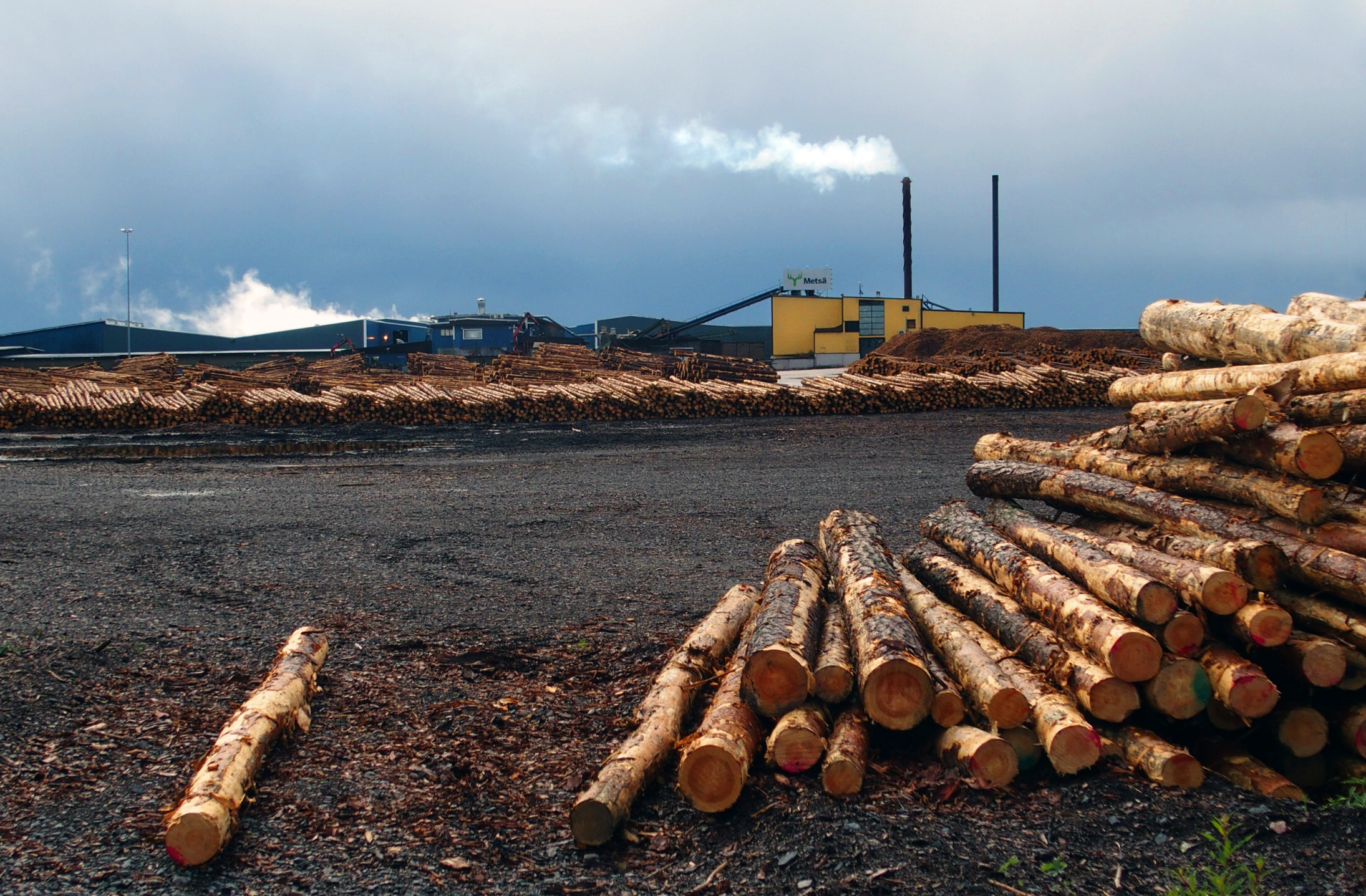 Metsä Wood, Kyrö sawmill, Pöytyä, Finland